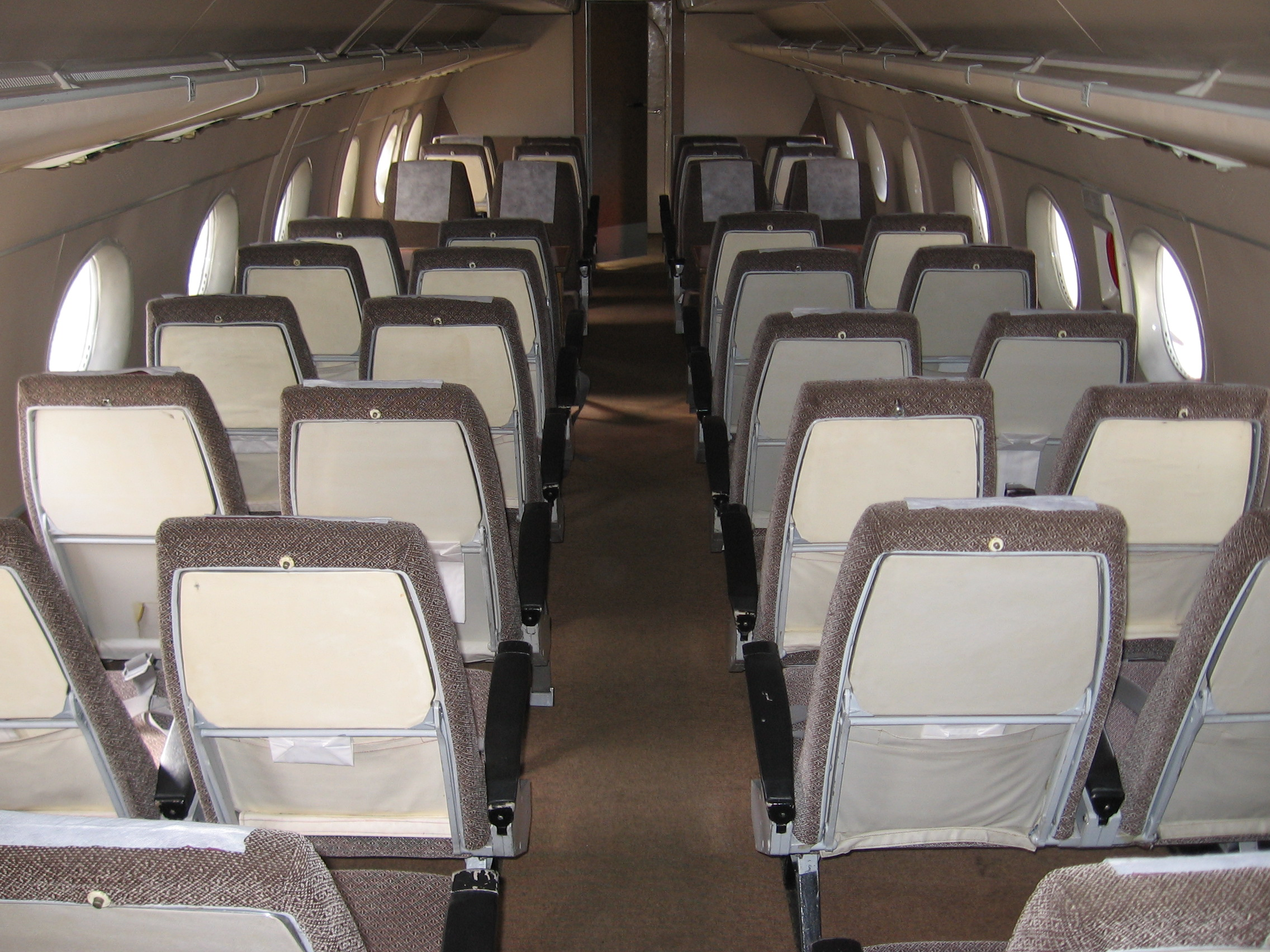 Interior of Antonov An-24, Kbely museum, Prague